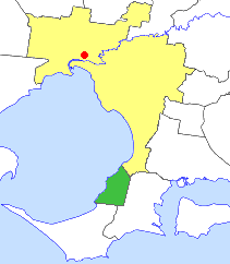 Location of the Shire of Mornington within outer Melbourne.